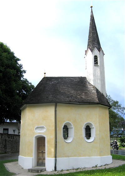 Kiefersfelden, view of Saint Sebastian's Chapel from south-west.